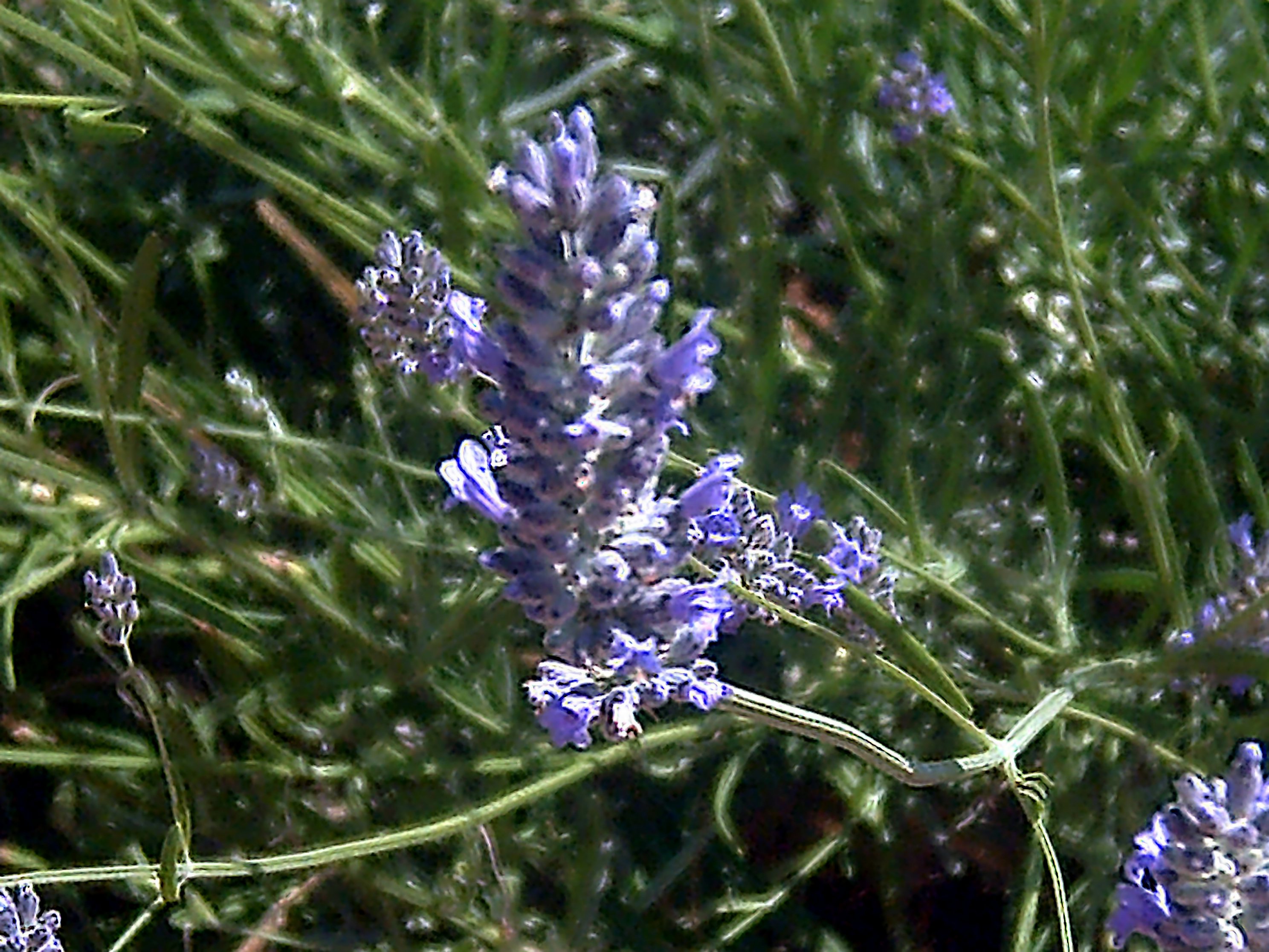 Lavandula latifolia Flowers close up Dehesa Boyal de Puertollano, Spain